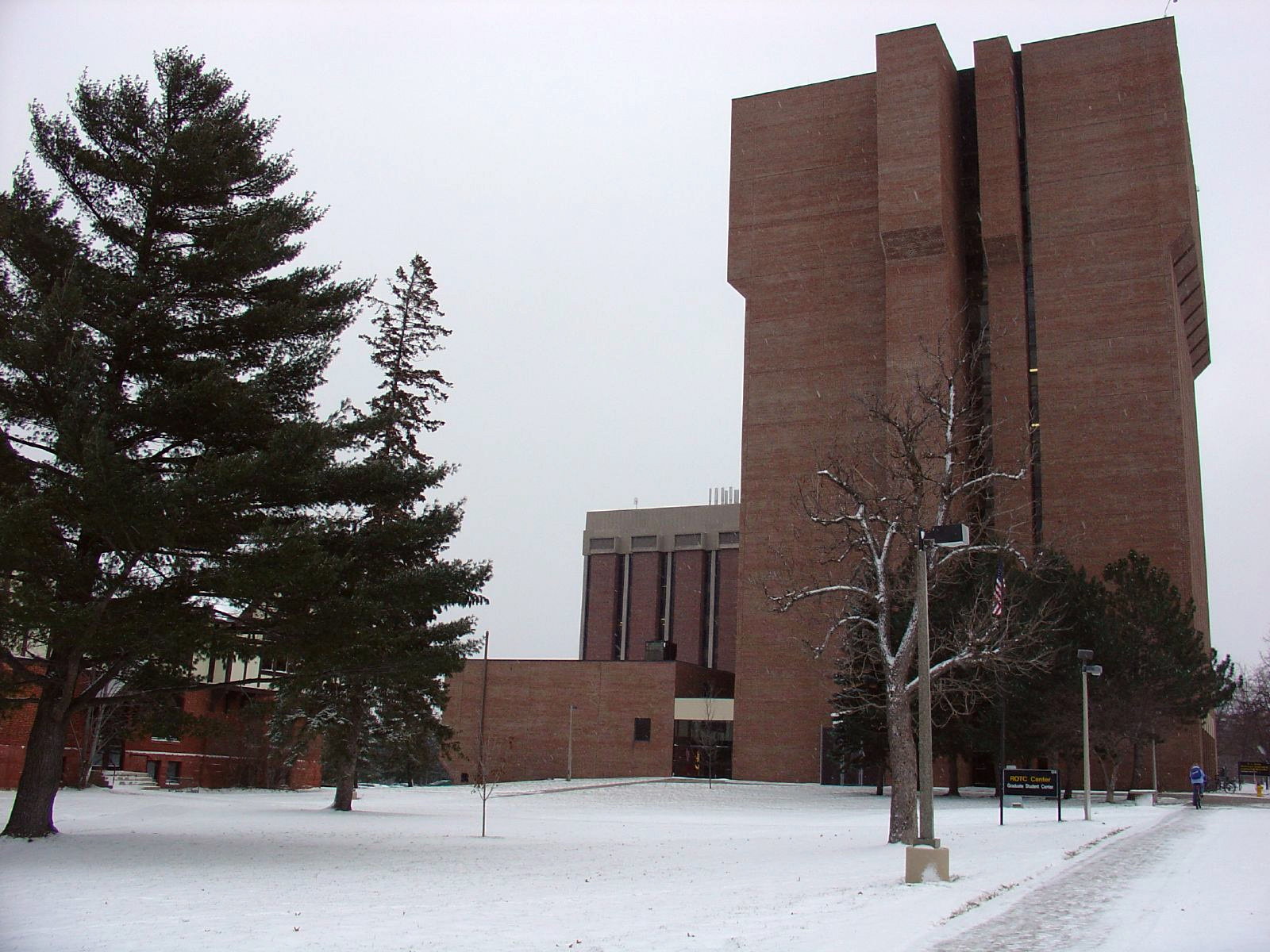 MTU - ROTC & MEEM Buildings The Air Force / Army ROTC building is on the left behind the trees, and the Mechanical Engineering - Engineering Mechanics building is on the right.